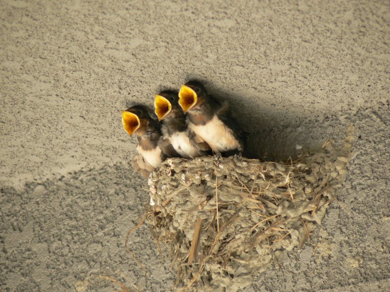 Hirundo rustica nest in Japan